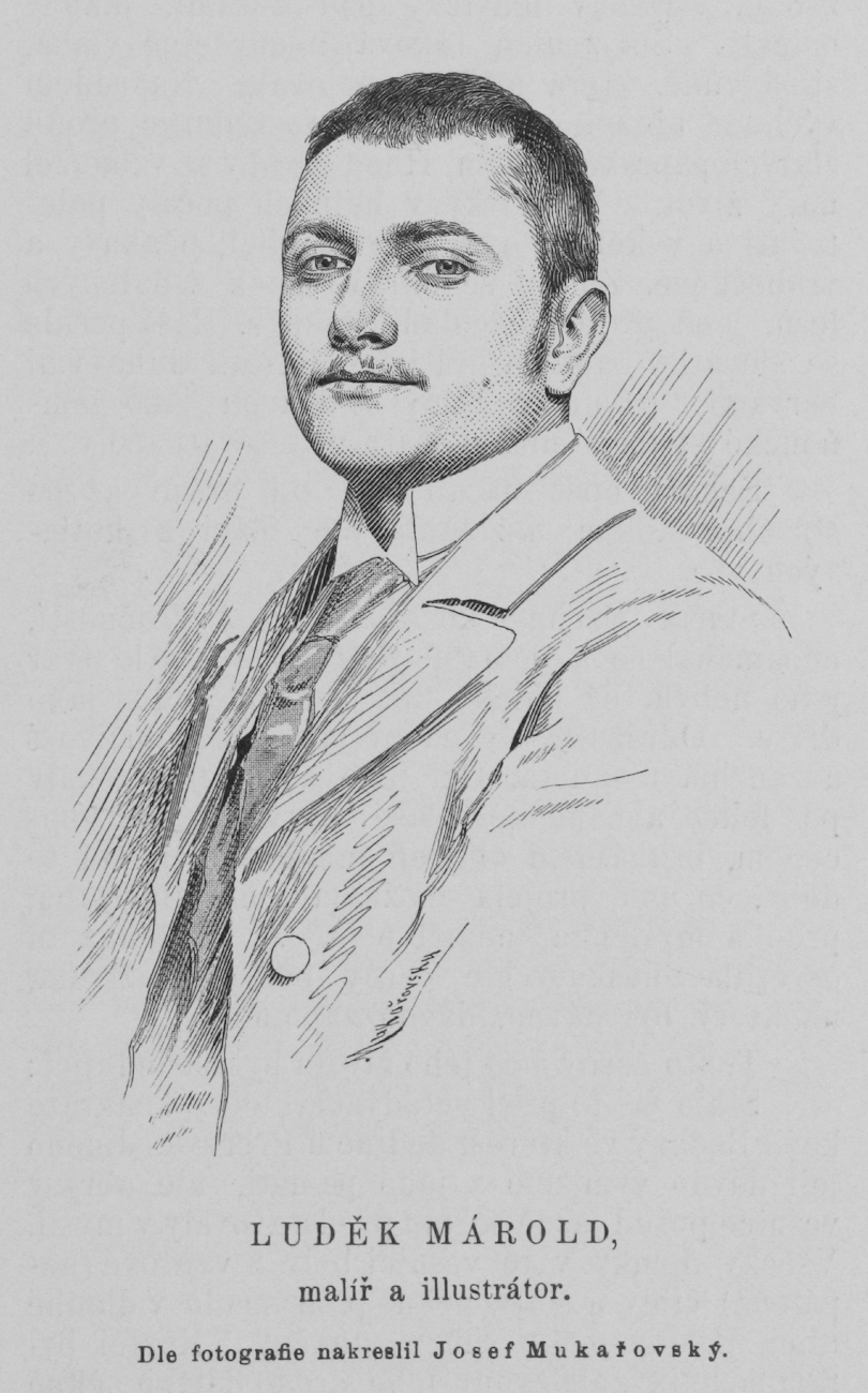 Portrait of Luděk Marold (1865 - 1898), Czech painter